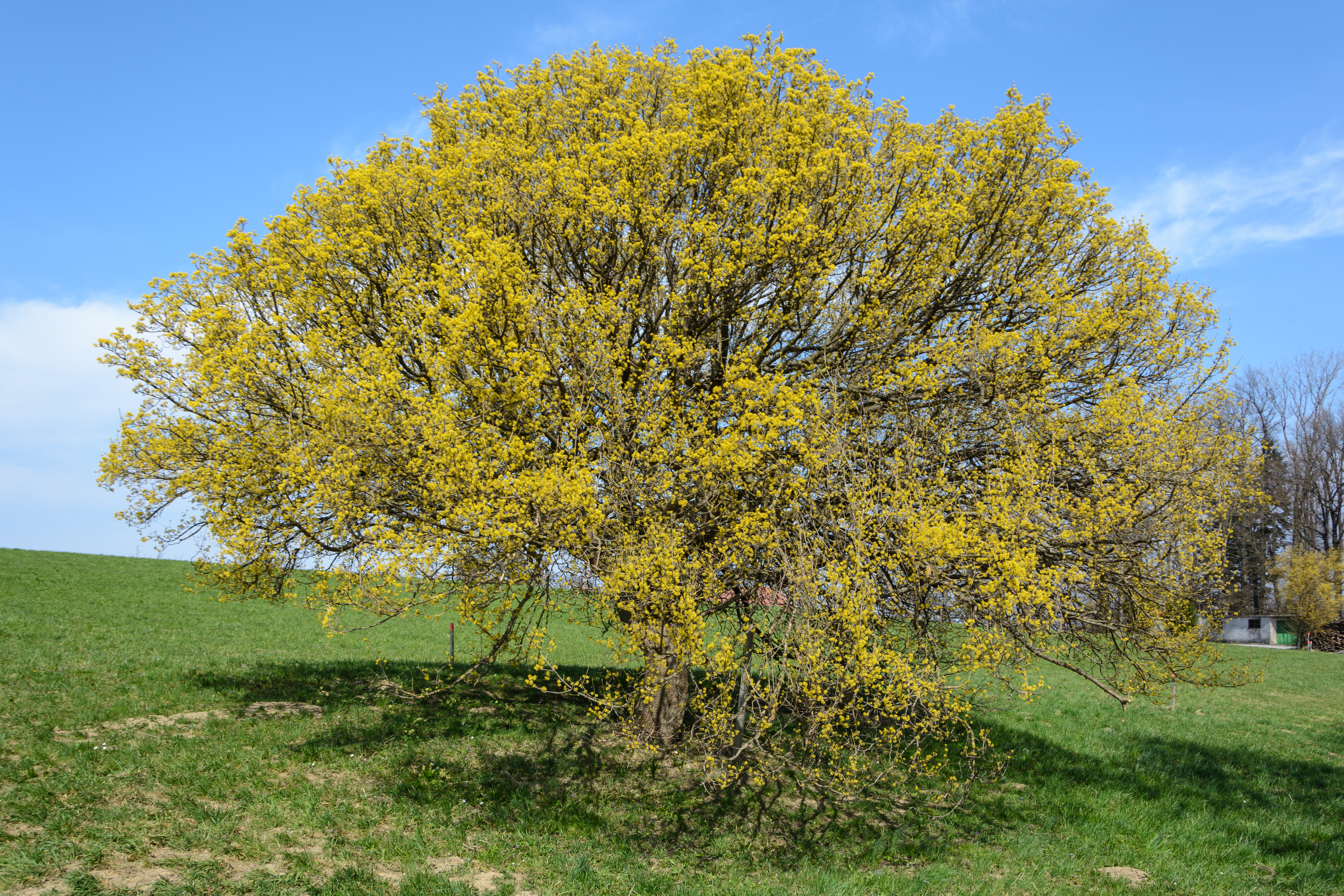 Flowering Cornus mas on Hegerberg mountain near Kasten, Lower Austria